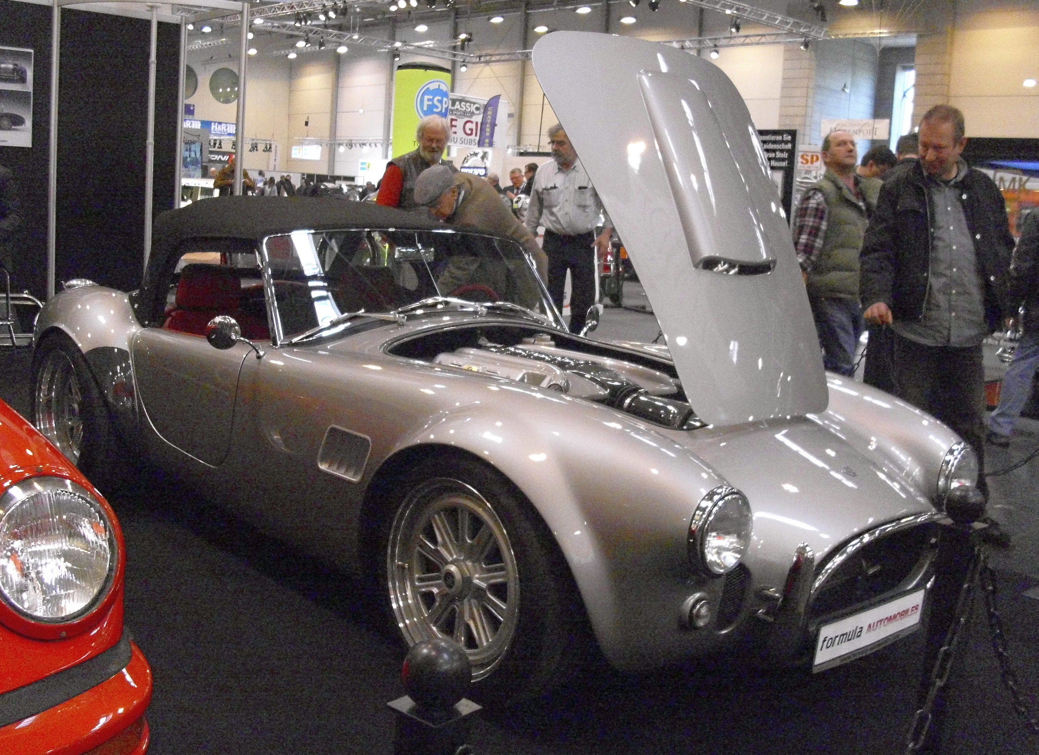 AC Automotive 2014